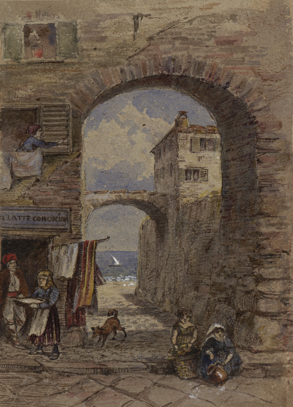 Examples of artwork on a variety of subjects and in a variety of styles by Francis Elizabeth Wynne from a sketchbook (ca. 420 drawings): mixed media, including watercolour, wash and, pen and ink.